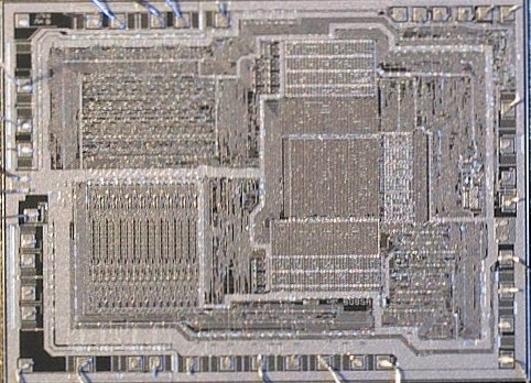 Intel 8085A CPU Die Image